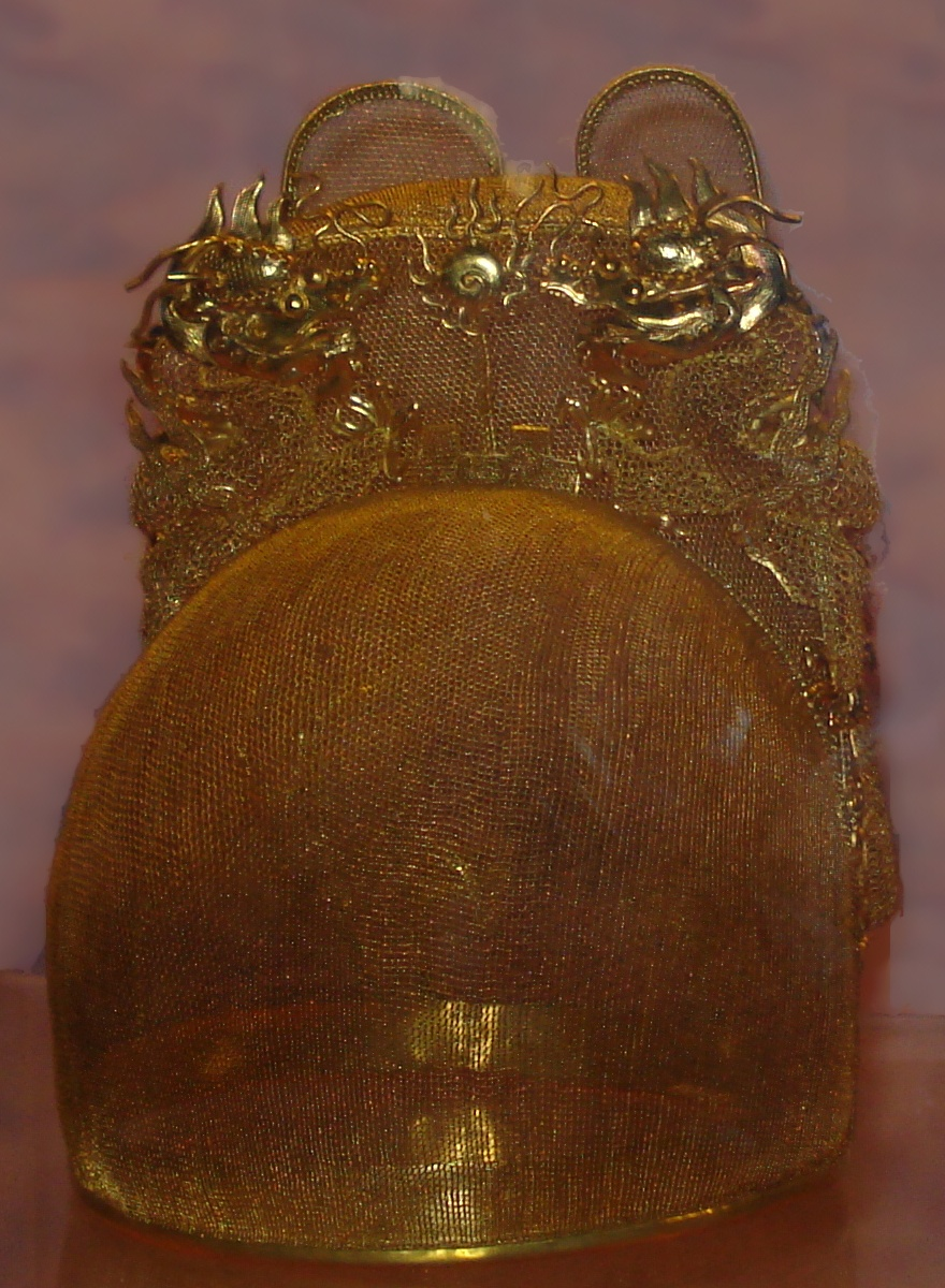 The Chinese emperor's crown during the Ming Dynasty (1368–1644)